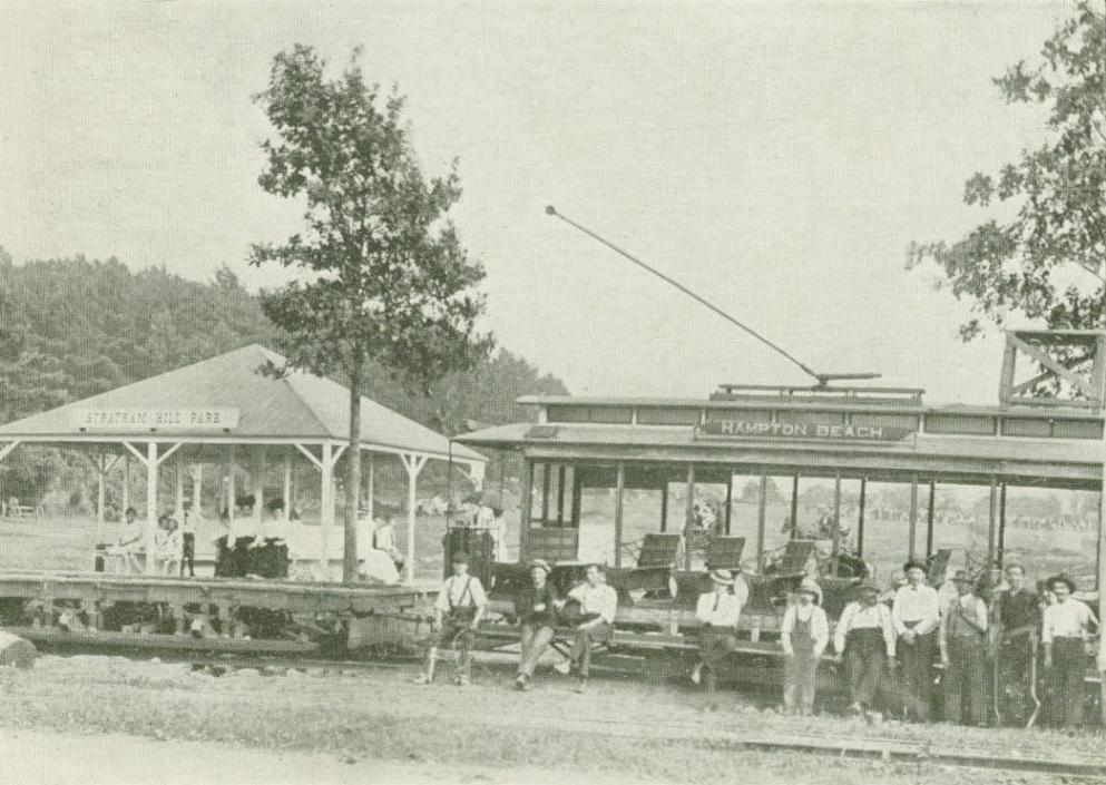 Trolley at Stratham Hill Park, Stratham, New Hampshire